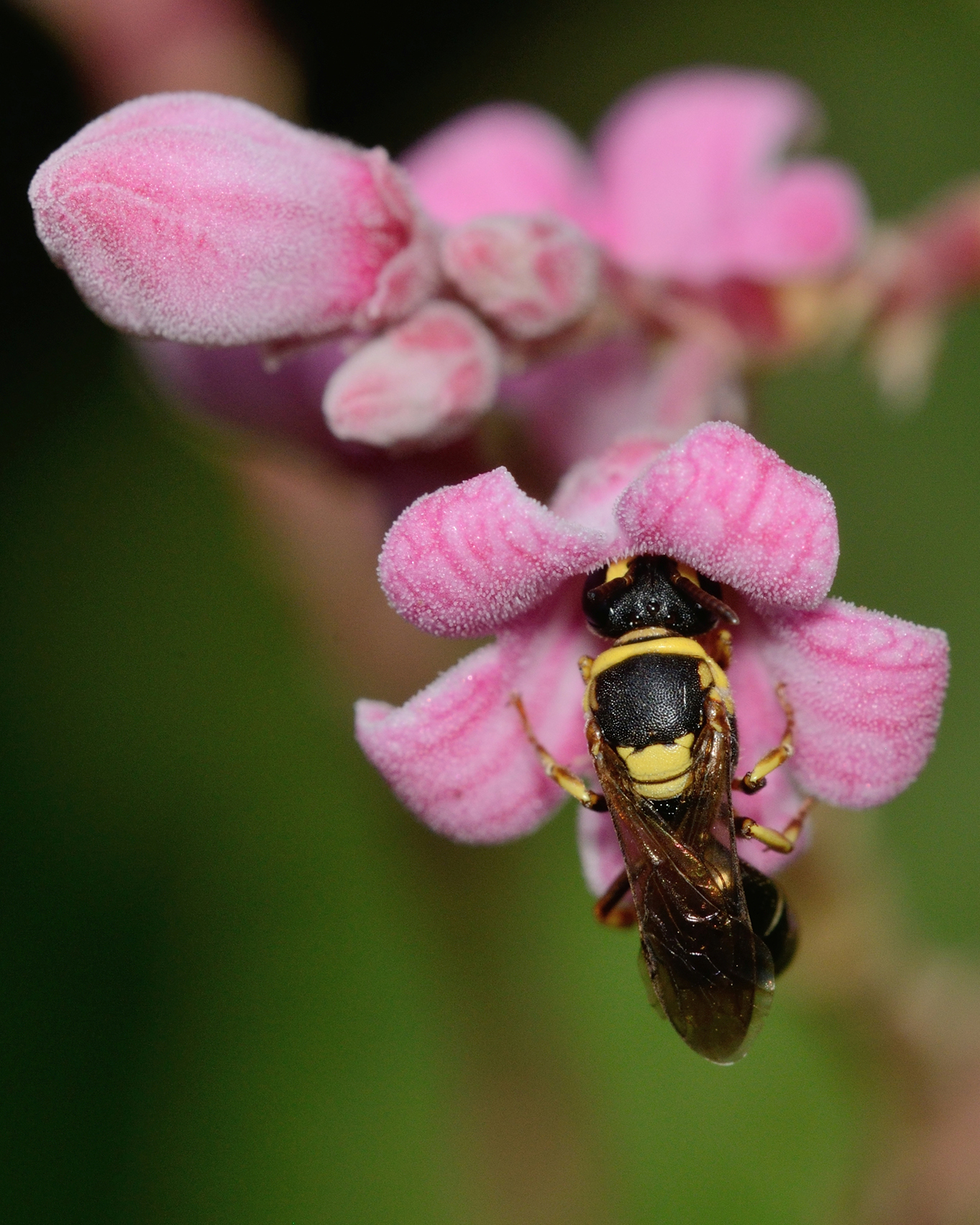 Hylaeus pictus foraging on Apocynum venetum, Karei Na'aman Nature Reserve, Israel, July 20, 2014.